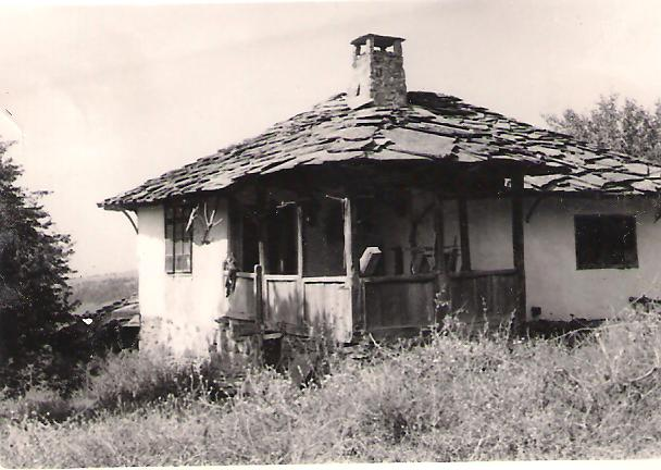 House in Kraeva Bachiya